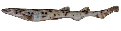 Species: Asymbolus analis